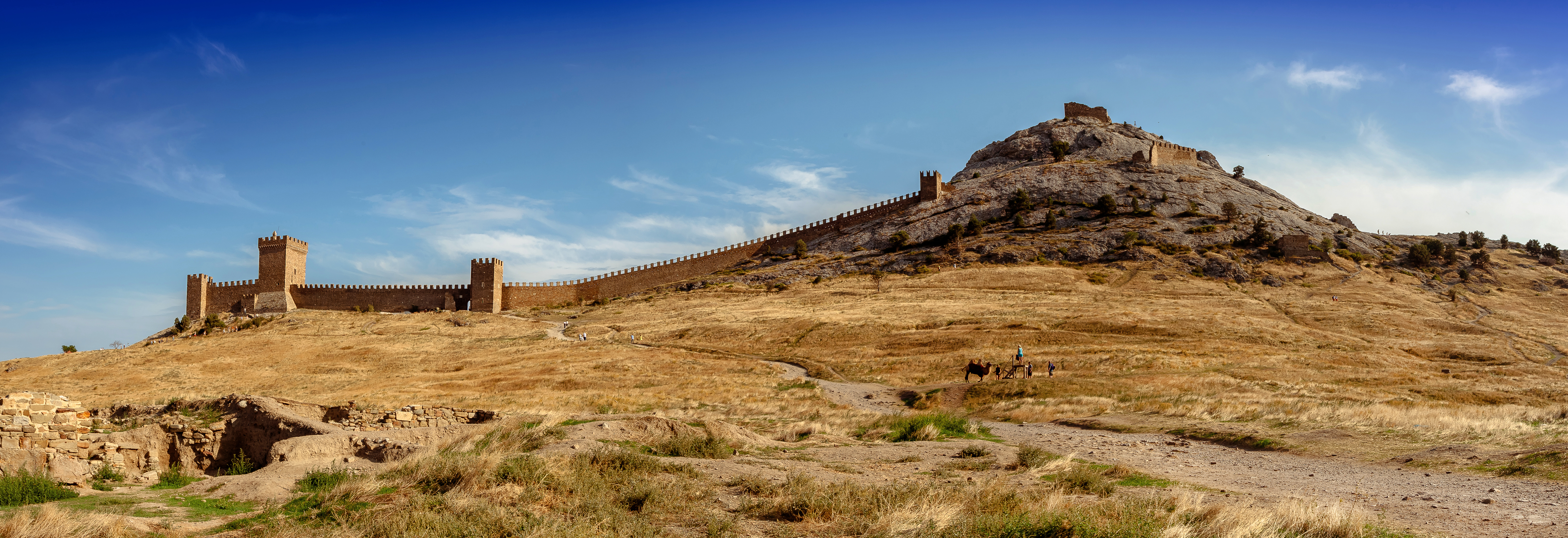 Genoese fortress. Sudak, Crimea, Ukraine